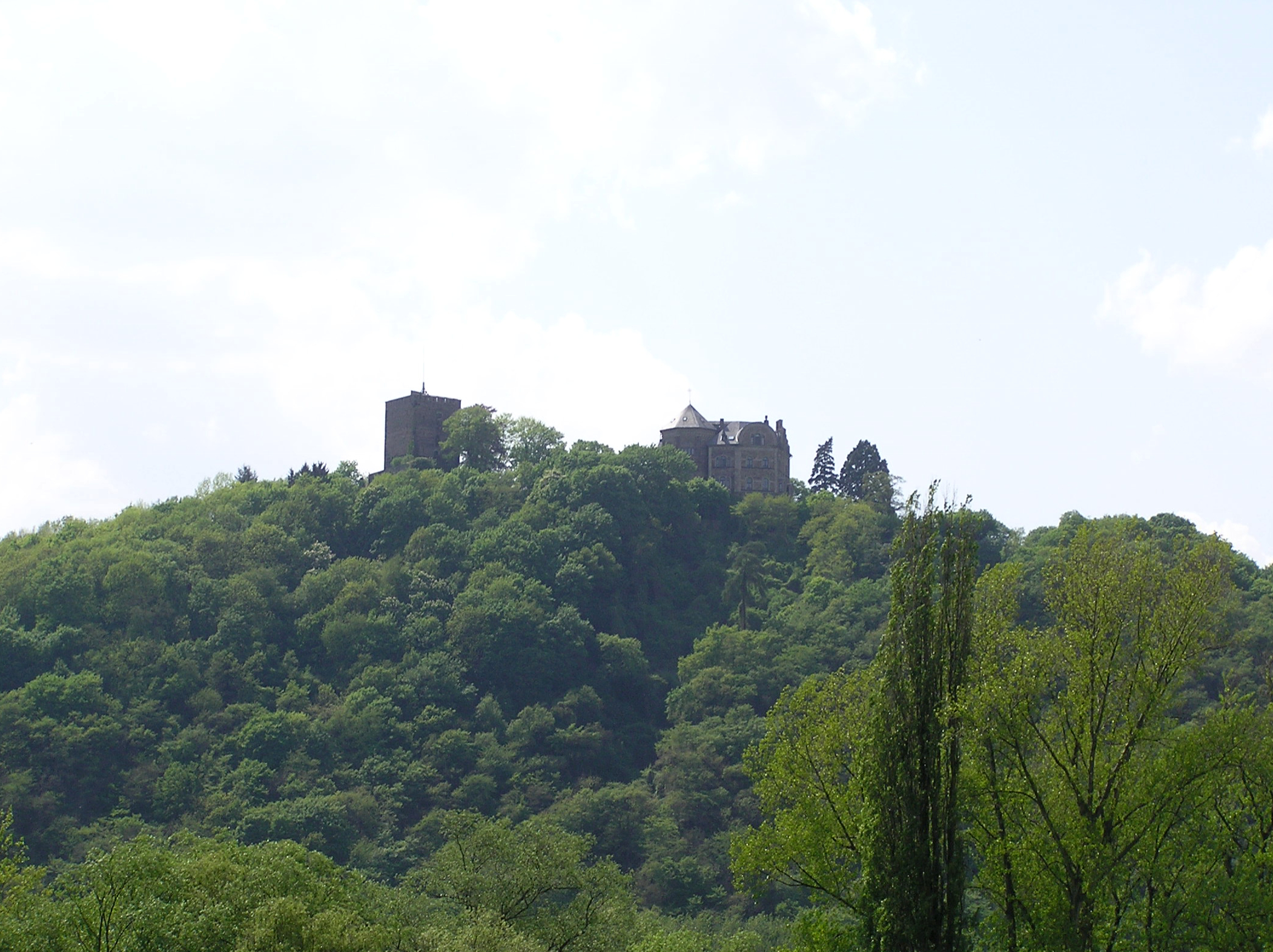 Castle Rheineck near the town of Bad Breisig on the Rhine, Germany, as seen from the right bank of the river.